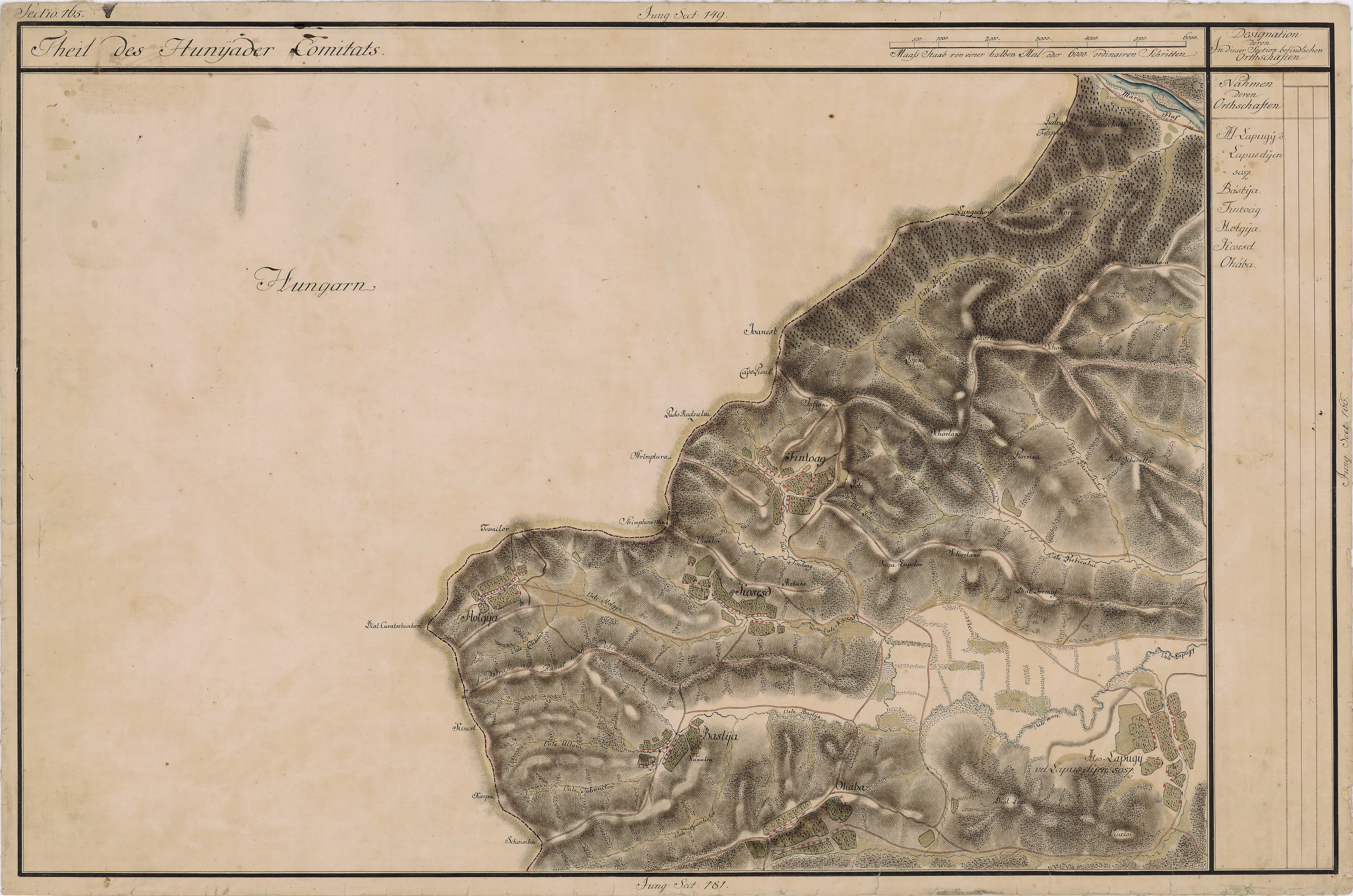 Grand Duchy of Transylvania, 1769-1773. Josephinische Landaufnahme pg.165